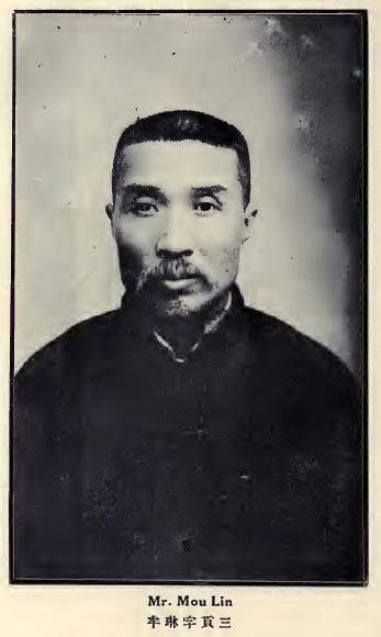 Mou Lin (1876-1950)